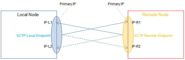 A narration of SCTP working principles